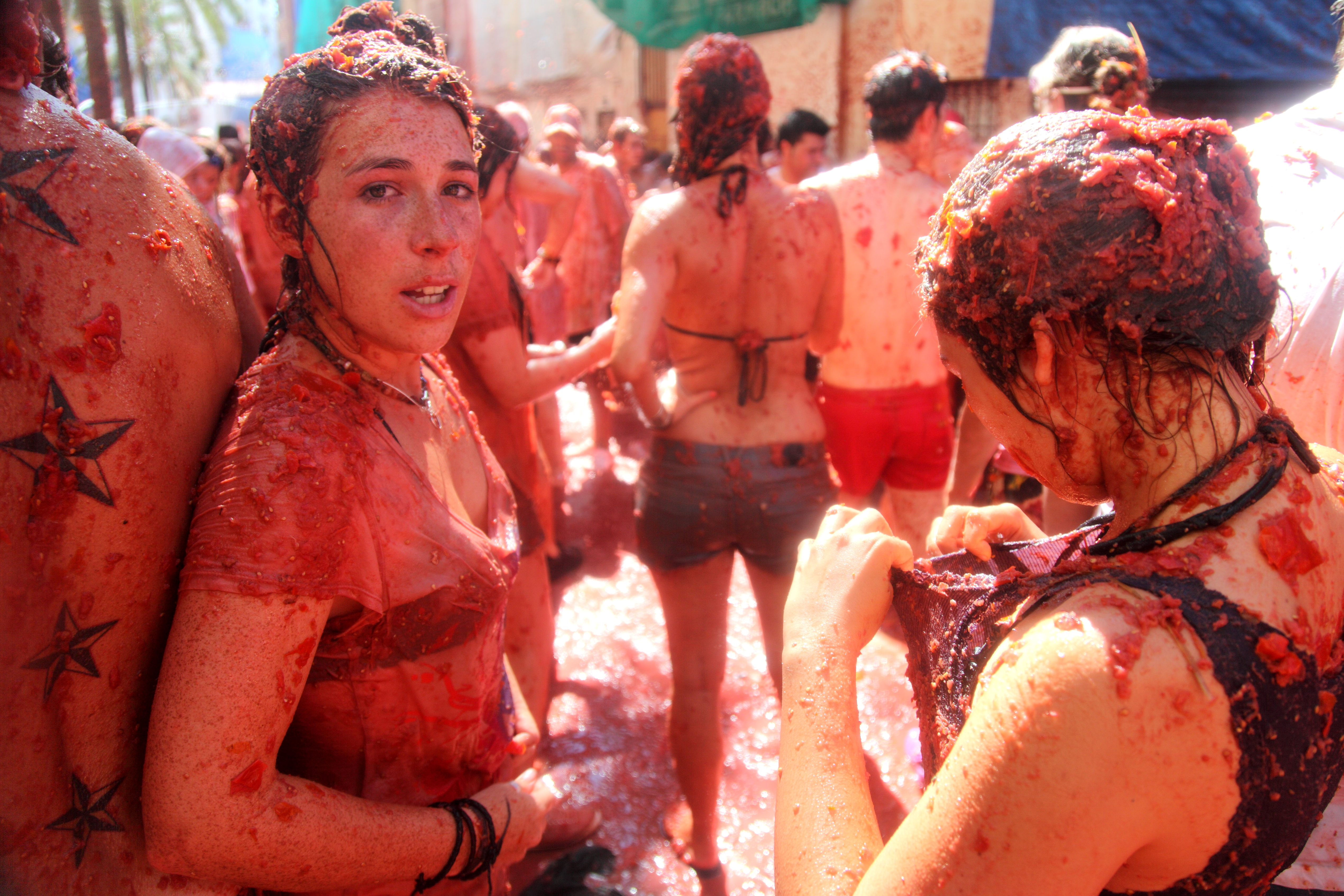 La Tomatina is a food fight festival held on the last Wednesday of August each year in the town of Buñol in the Valencia region of Spain. Tens of metric tons of over-ripe tomatoes are thrown in the streets in exactly one hour. Approximately 20,000–50,000 tourists come to find out more about the tomato fight, multiply by several times Buñol's normal population of slightly over 9,000. There is limited accommodation for people who come to La Tomatina, and thus many participants stay in Valencia and travel by bus or train to Buñol, about 38 km outside the city. In preparation for the dirty mess that will ensue, shopkeepers use huge plastic covers on their storefronts in order to protect them. They also use about 150,000 (kg) tomatoes, just about 90,000 pounds (